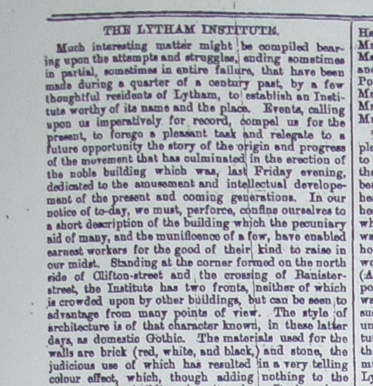 Copy from the Lytham Times of 4 September 1878 about the opening of the Lytham Institute